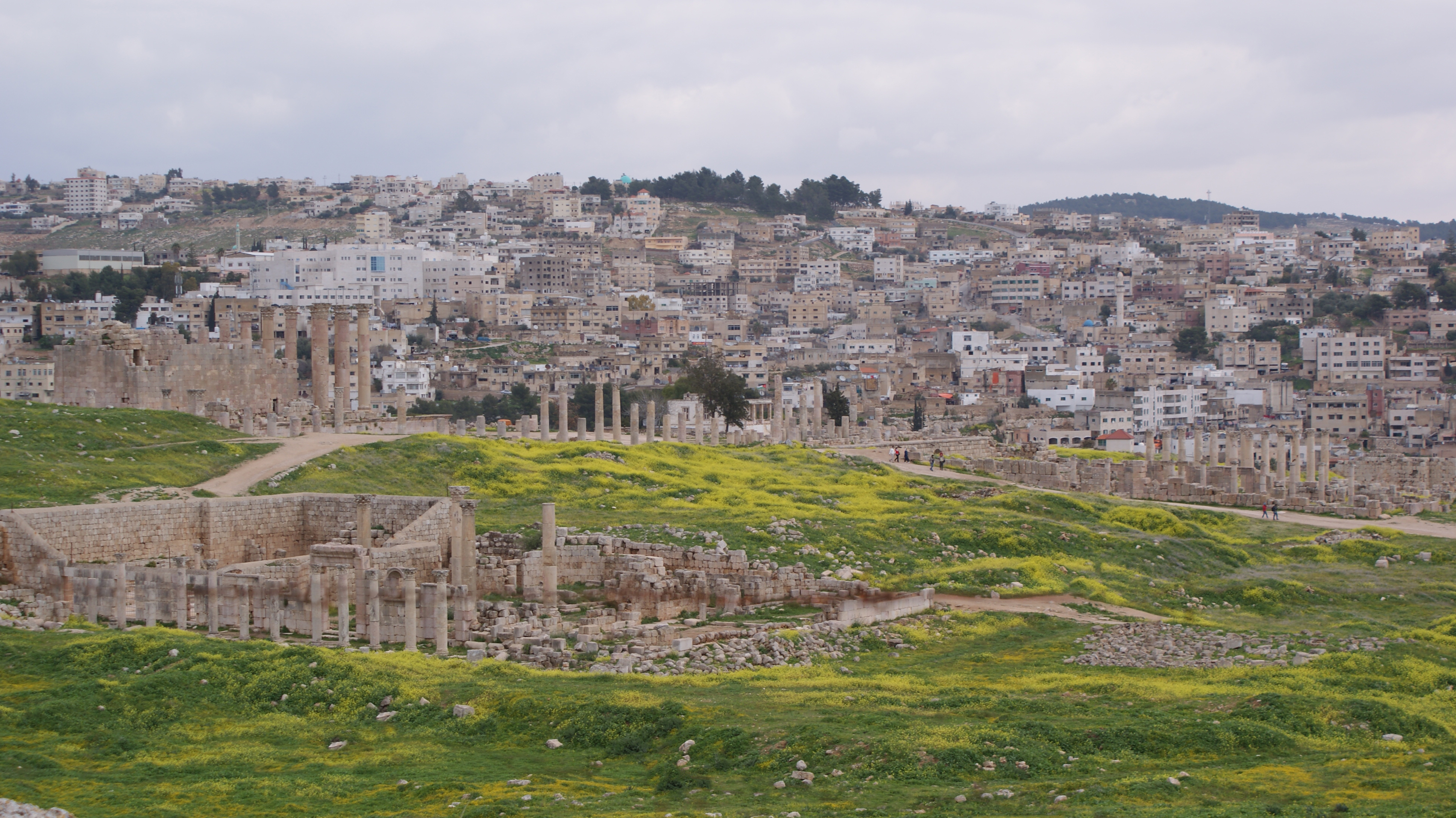 The Cardo "Colonnaded Street" in Jerash, Jordan - as seen from the western side